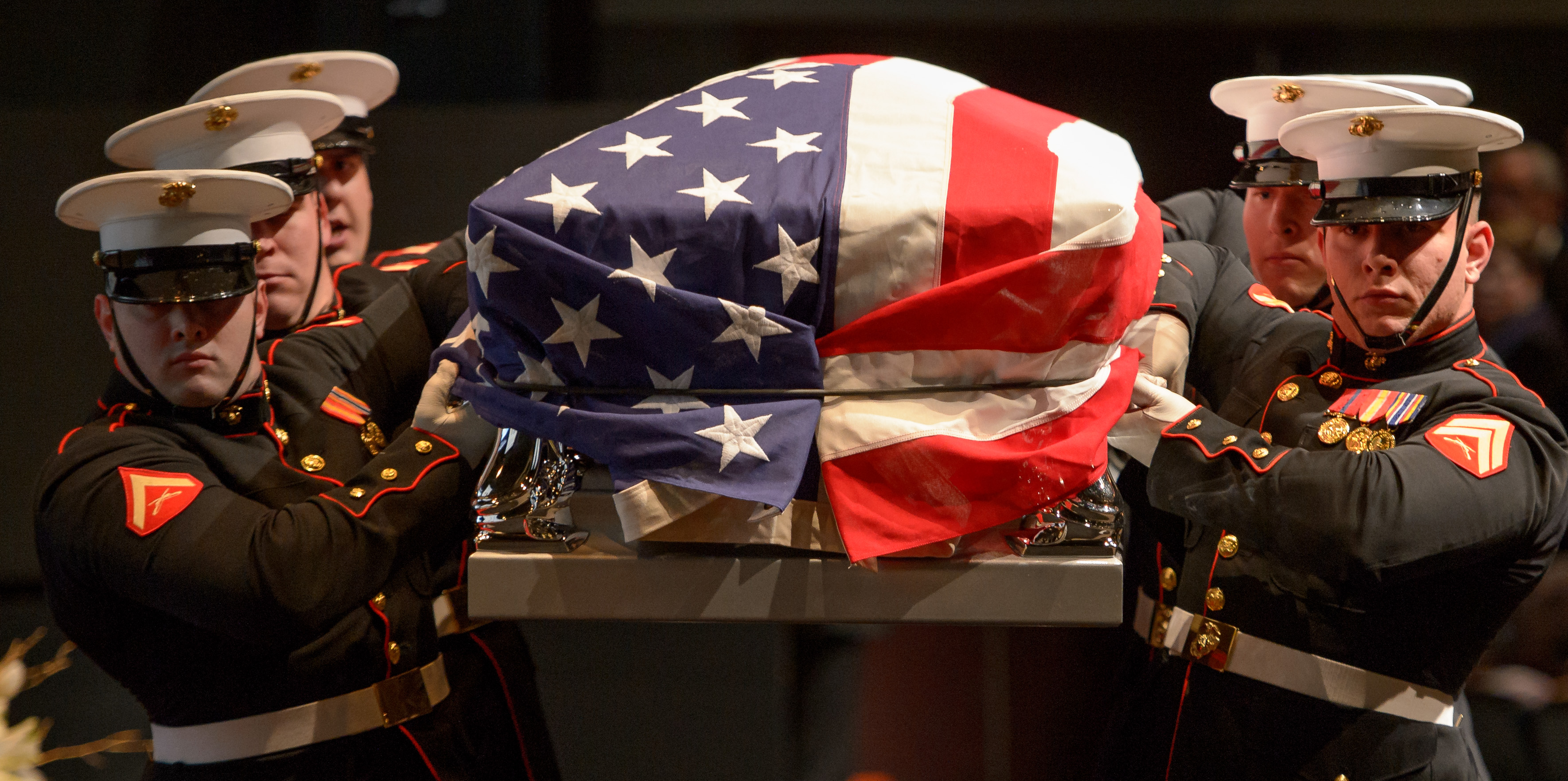 Marine Corp pallbearers bring carry former astronaut and U.S. Senator John Glenn into a service to celebrate his life, Saturday, Dec. 17, 2016 at The Ohio State University, Mershon Auditorium in Columbus.